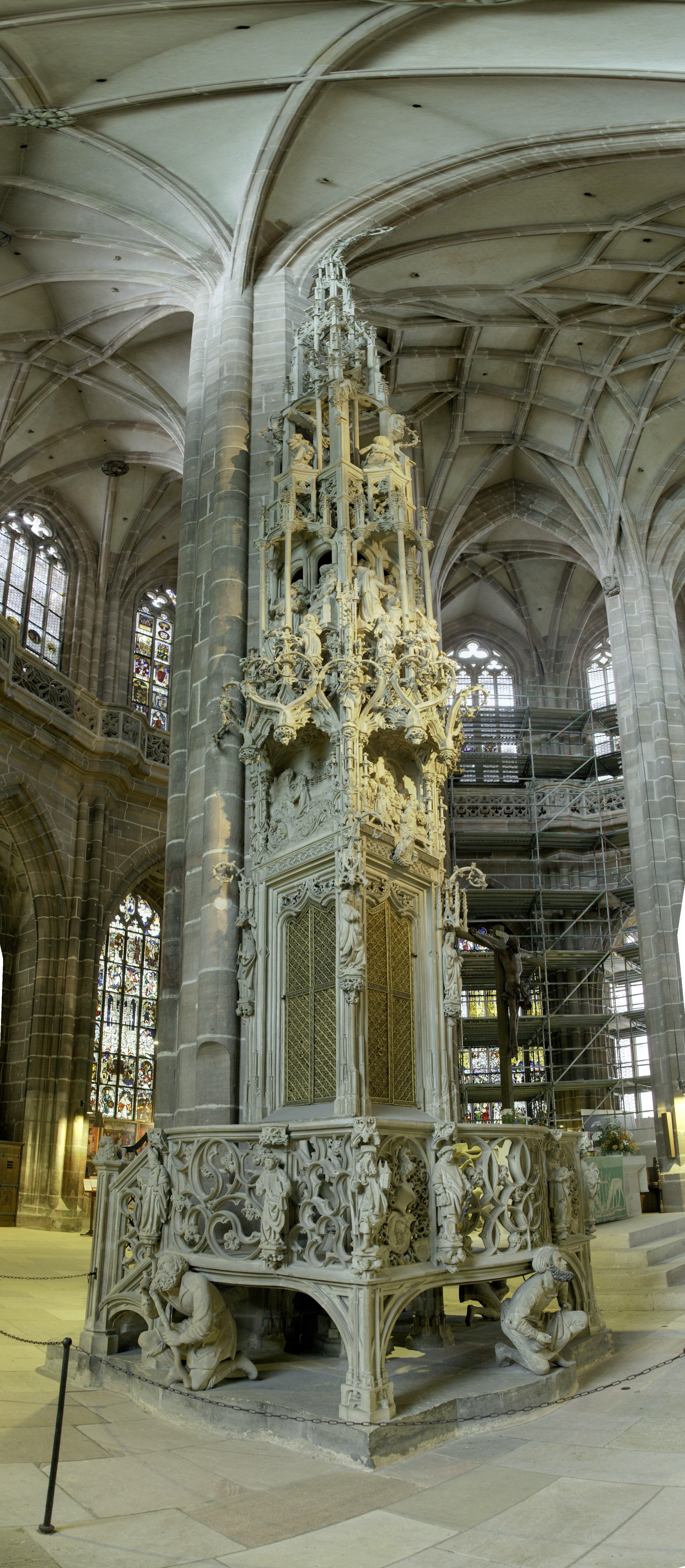 church tabernacle of Lorenzkirche, Nürnberg